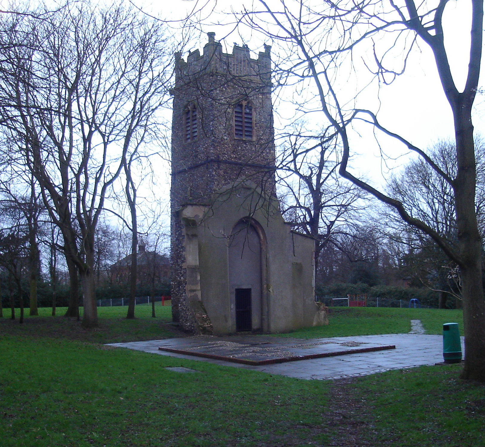 The tower of St Bartholomew's church, Norwich is all that remains after the church was destroyed in the Baedeker raid on the 27 April 1942 St Bartholomew's church